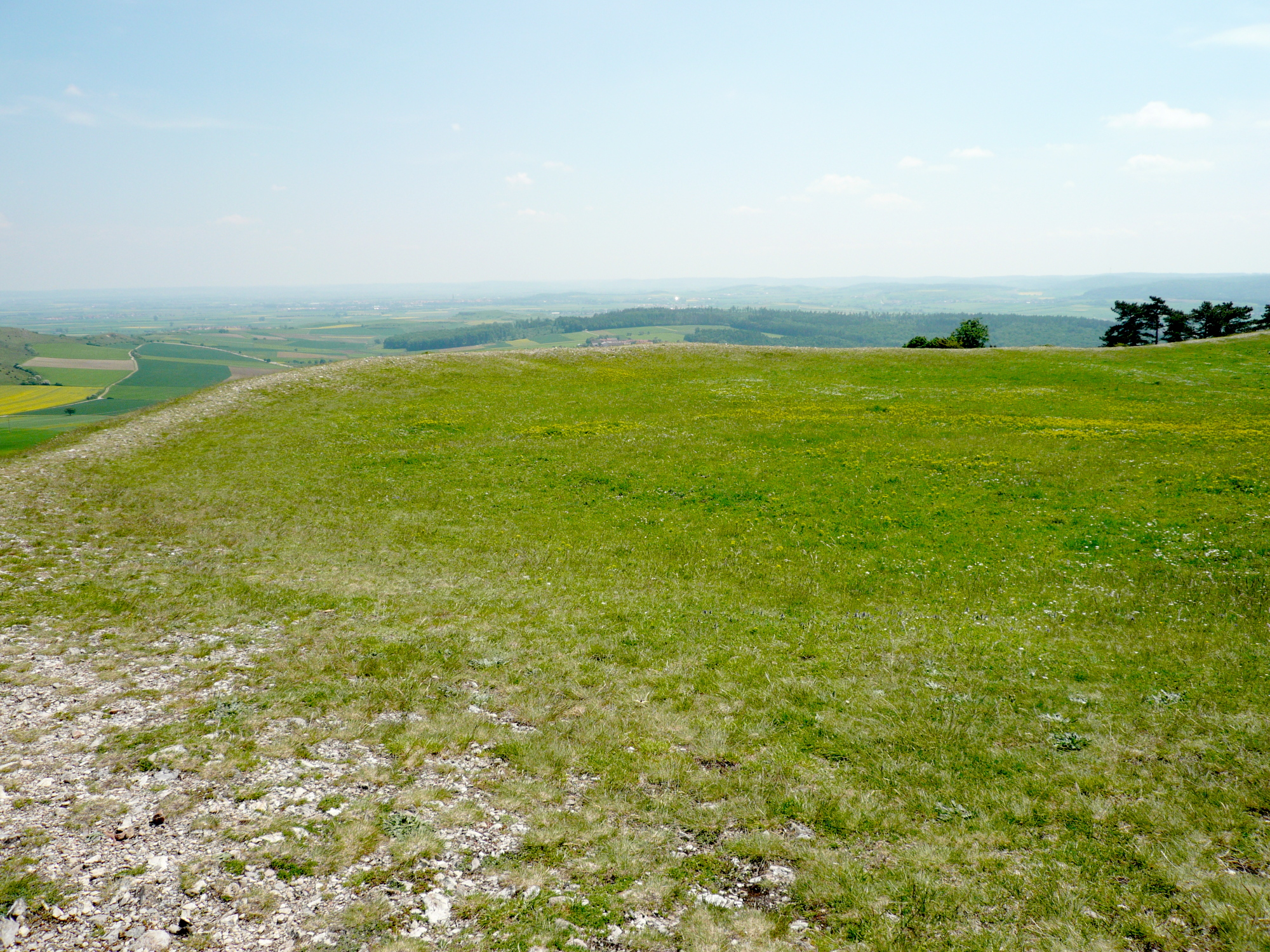 On the summit of mountain Ipf, Baden-Wuerttemberg, Germany